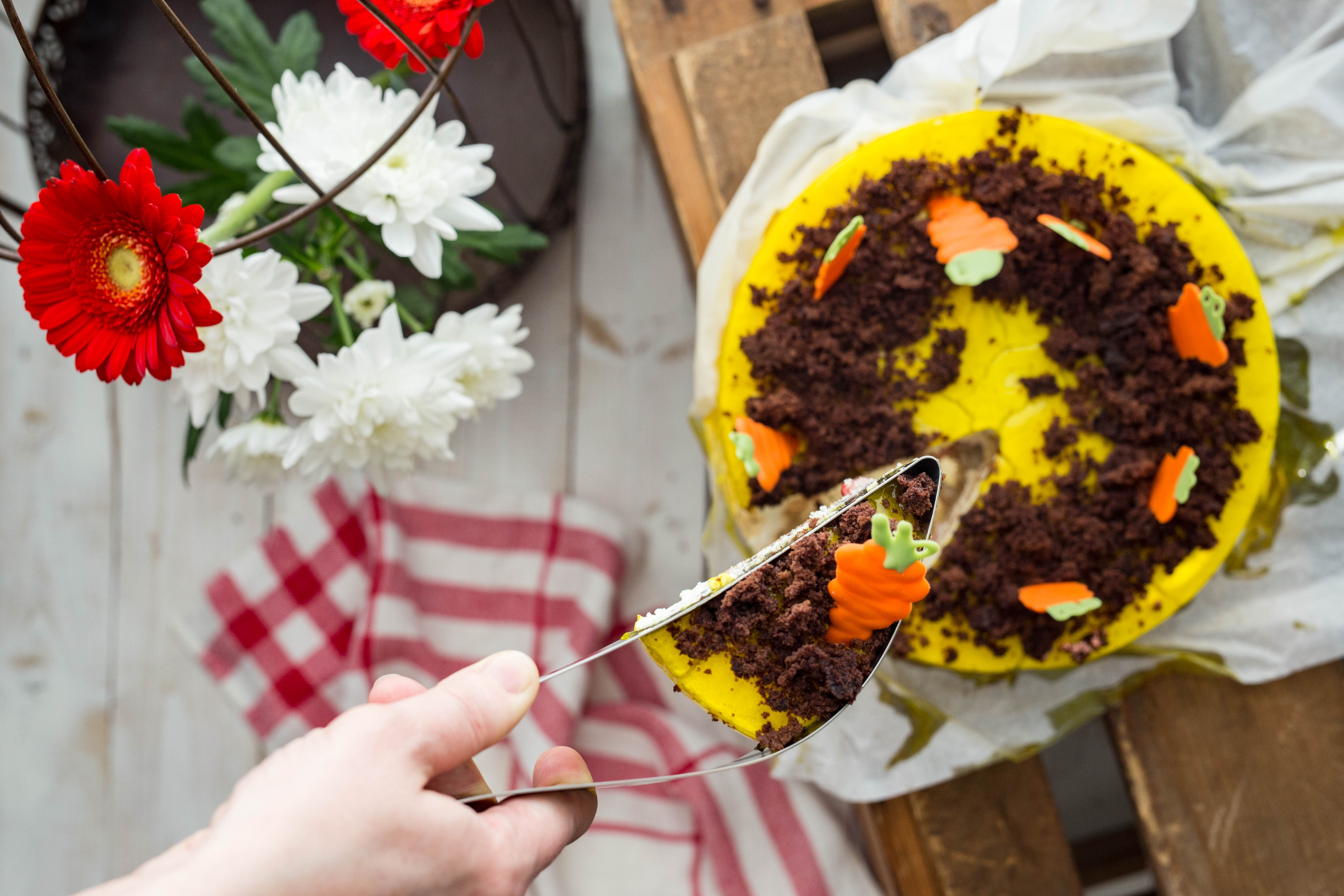 Award winning Magisso Cake Server in use. Designed by Maria Kivijärvi.